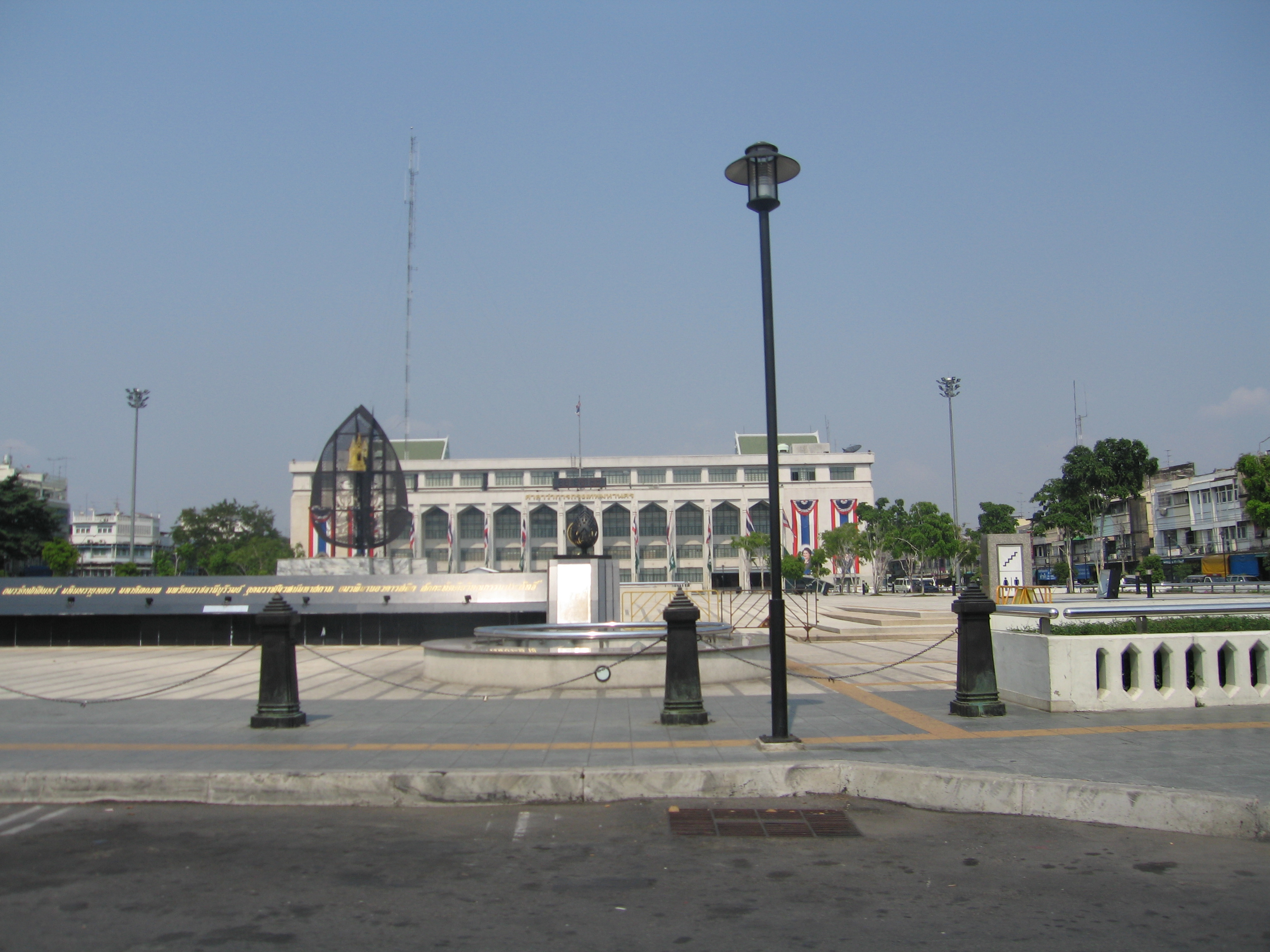 Bangkok Metropolitan Administration